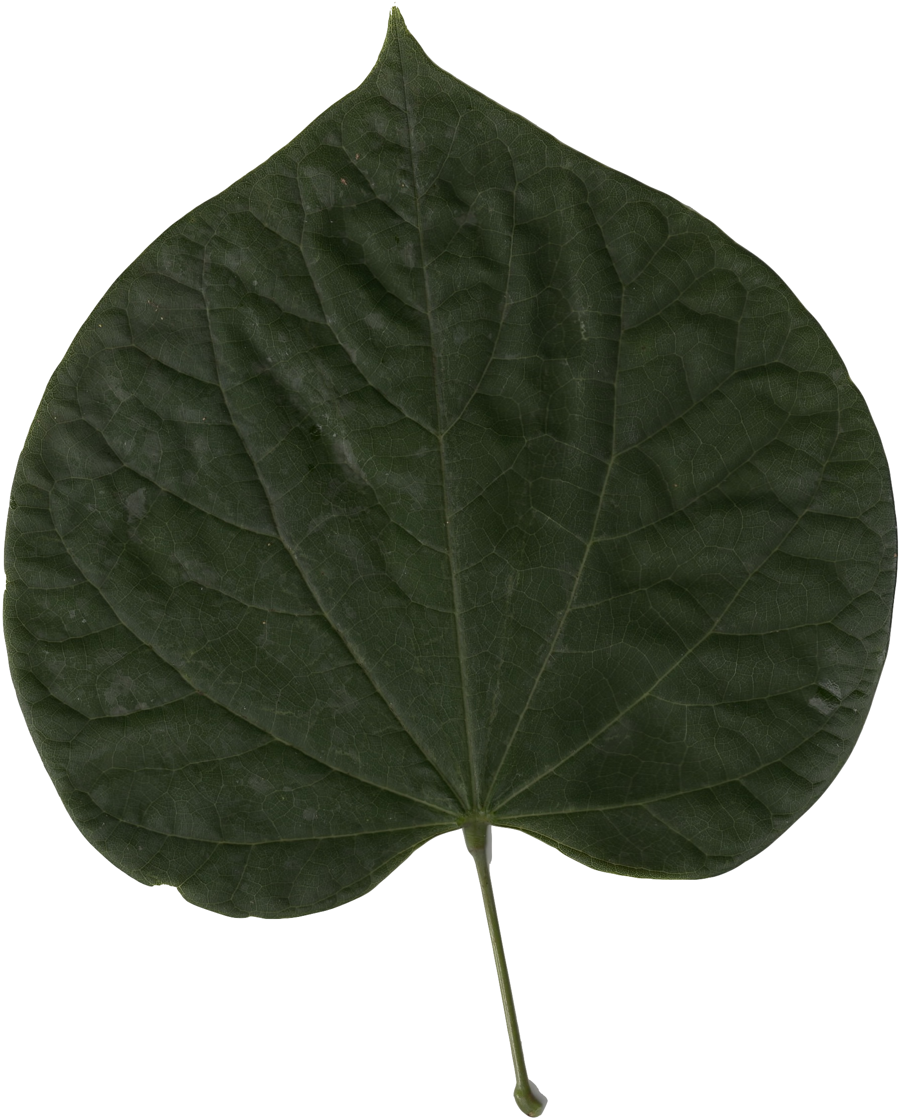 Cercis Canadensis Leaf